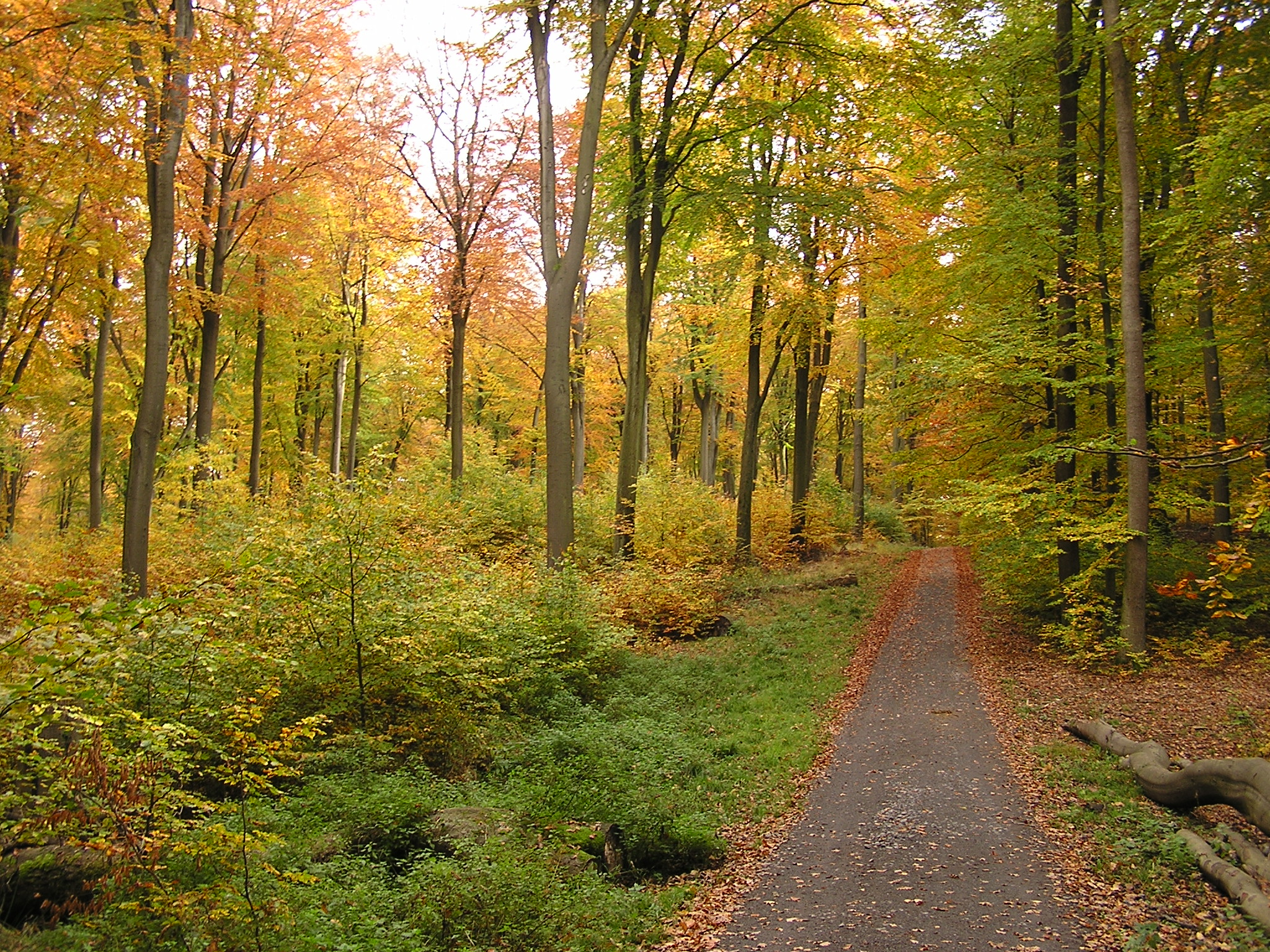 The Hardtwald in the are of Friedrichsdorf in autumn